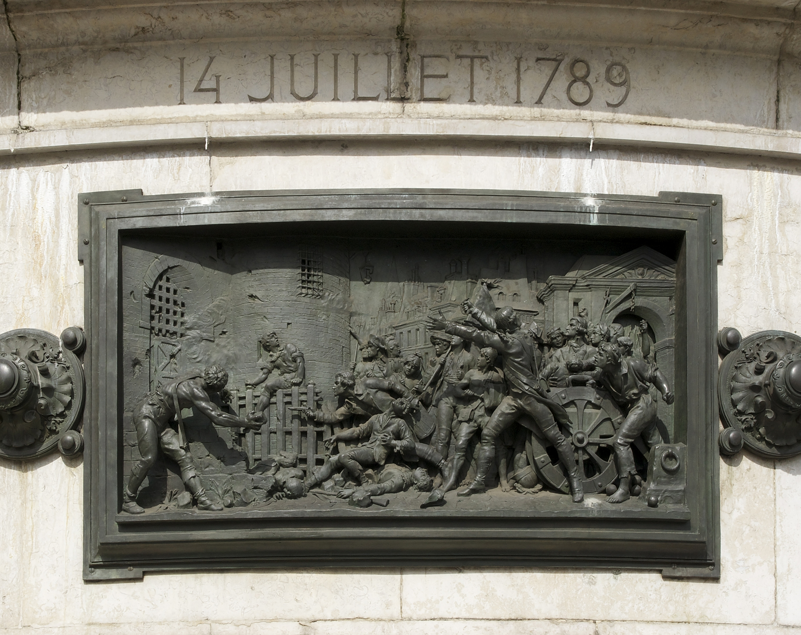 The Storming of the Bastille, 14 july 1789. Bronze relief at the "Monument to the Republic", Place de la République, Paris